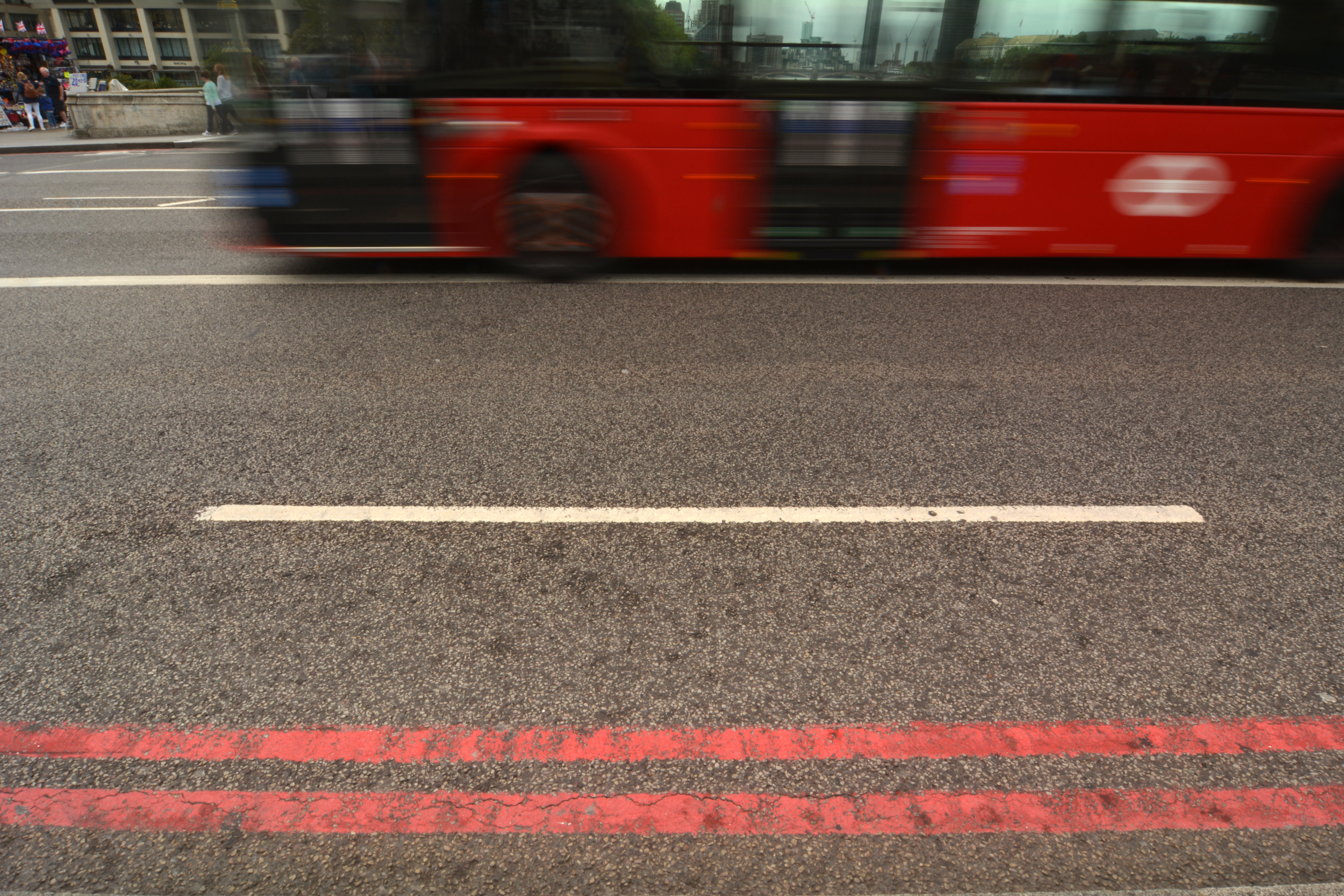 Double red lines on the road denoting a Red Route, on Westminster Bridge, London.